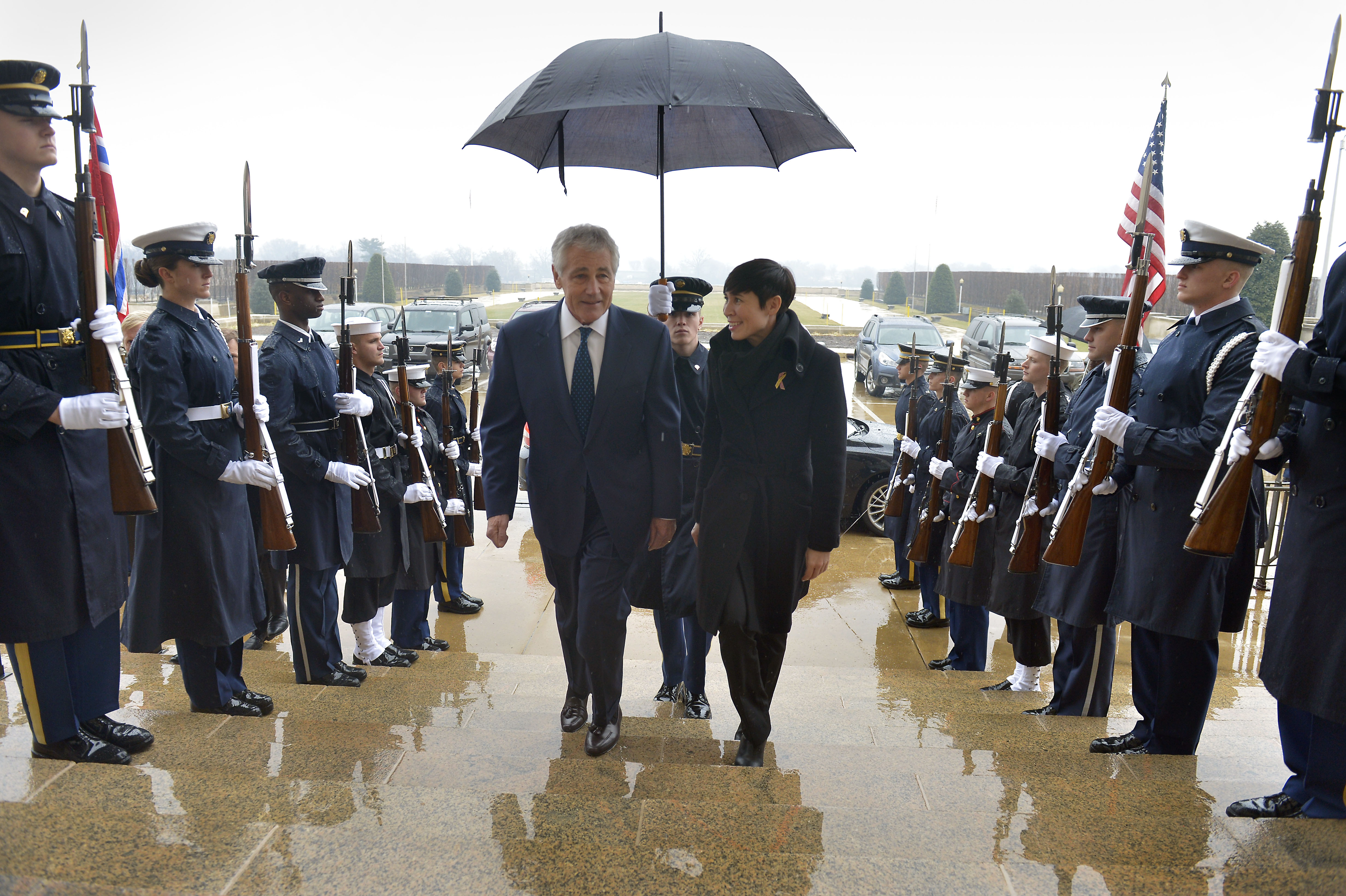 U.S. Secretary of Defense Chuck Hagel, center left, hosts an honor cordon for Norwegian Minister of Defense Ine Eriksen Søreide, center right, at the Pentagon in Arlington, Va., Jan. 10, 2014.